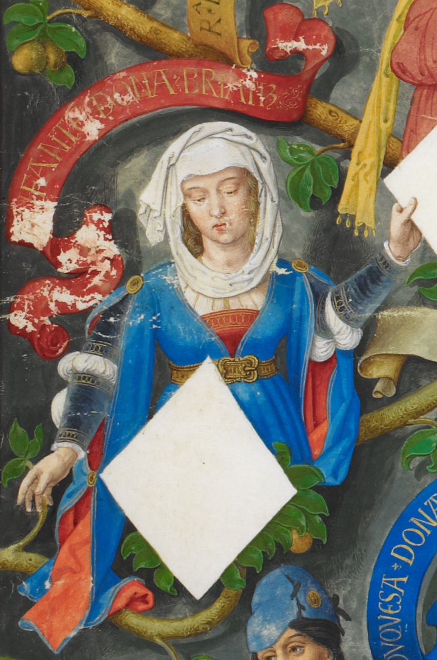 Beatrice of Portugal (c.1340s-1381), daughter of King Peter I of Portugal and Inês de Castro.